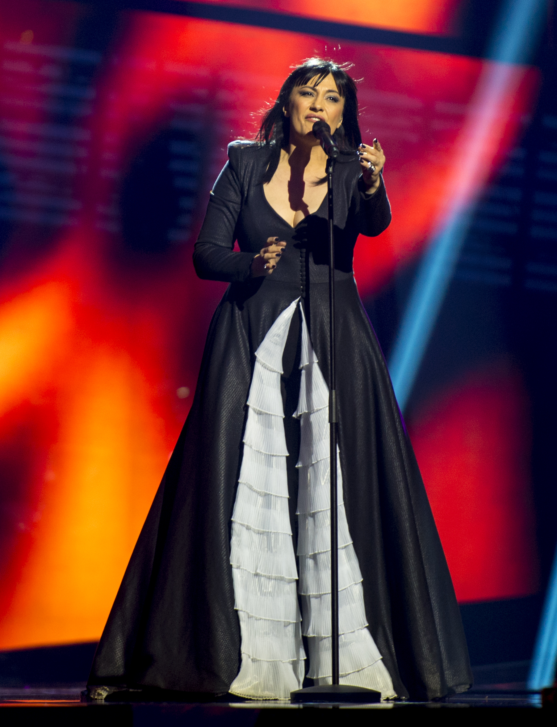 Kaliopi representing North Macedonia with the song "Dona" during a rehearsal before the second semi final of the Eurovision Song Contest 2016 in Stockholm. (Help translate this text)